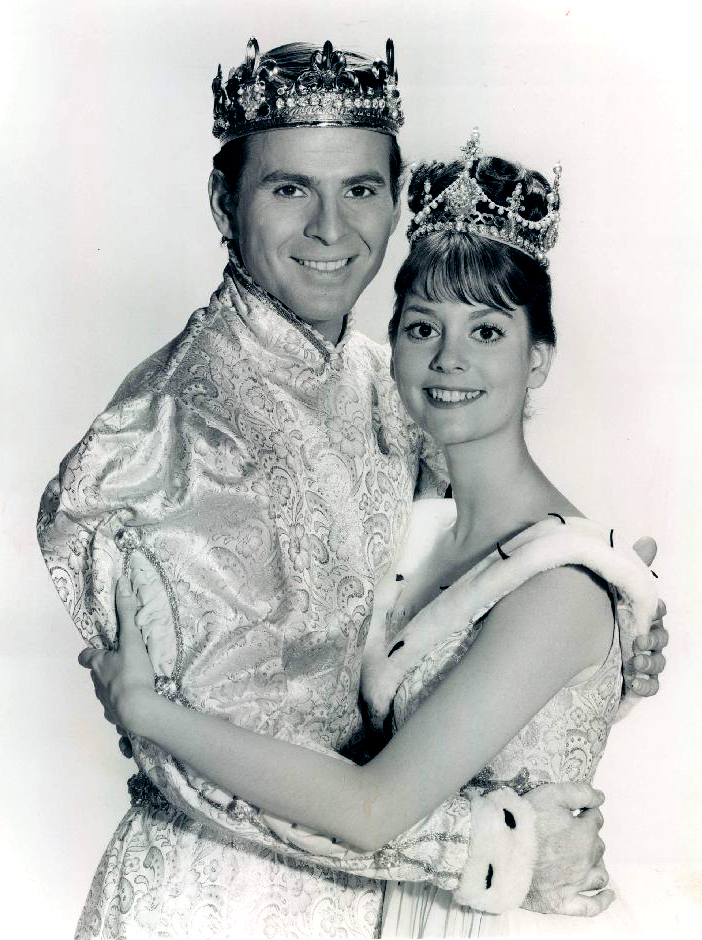 A promotional photo for the 1969 CBS broadcasting of the 1965 Cinderella musical, starring Stuart Damon as the Prince and Lesley Ann Warren as Cinderella.